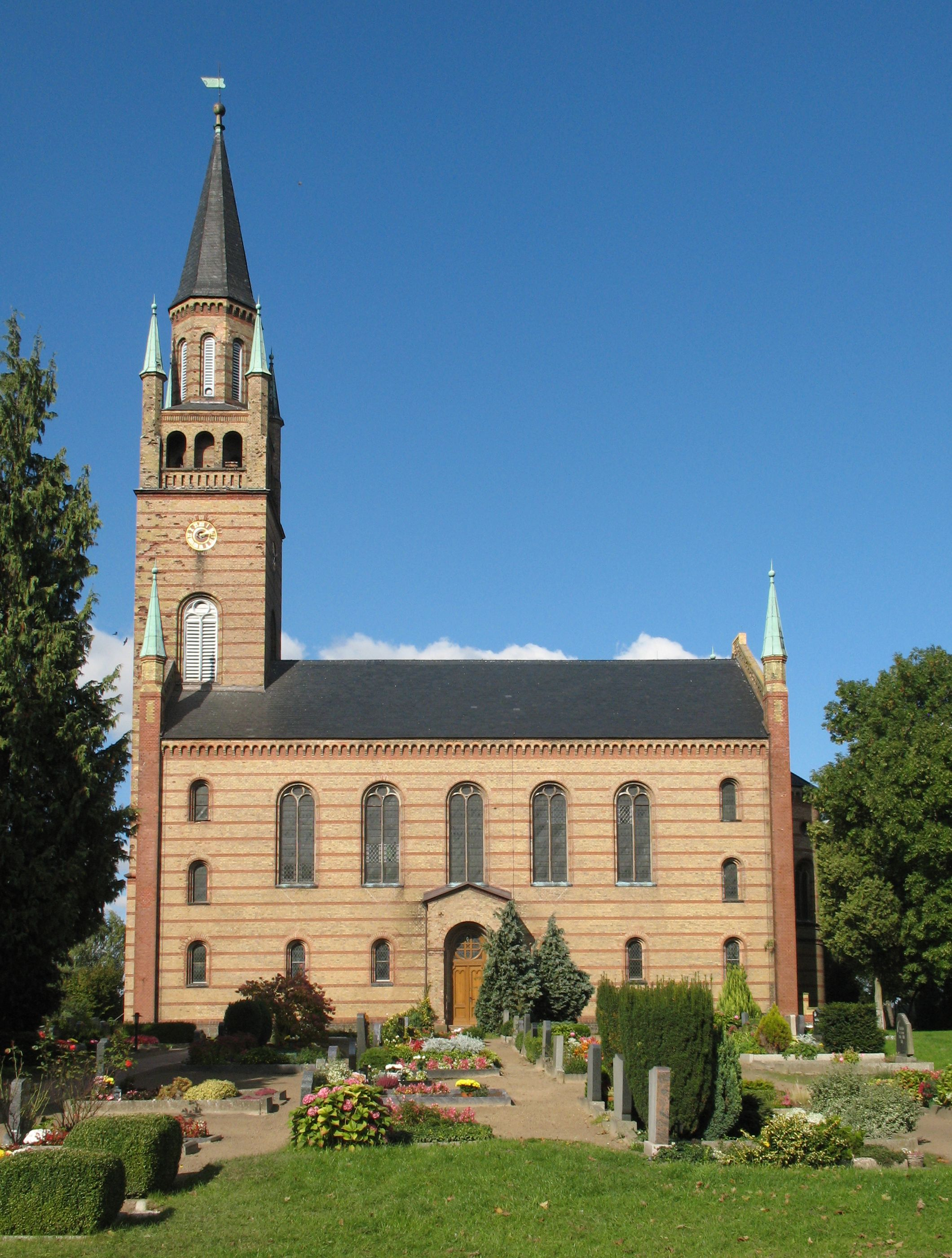 Church in Fehrbellin-Langen in Brandenburg, Germany Object location52° 50′ 27.23″ N, 12° 48′ 13.77″ E